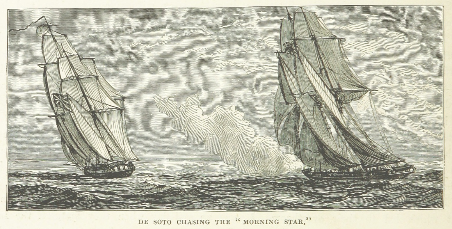 An illustration of Benito de Soto's pirate ship, the Burla Negra ("Black Joke"), chasing the British merchant ship Morning Star.